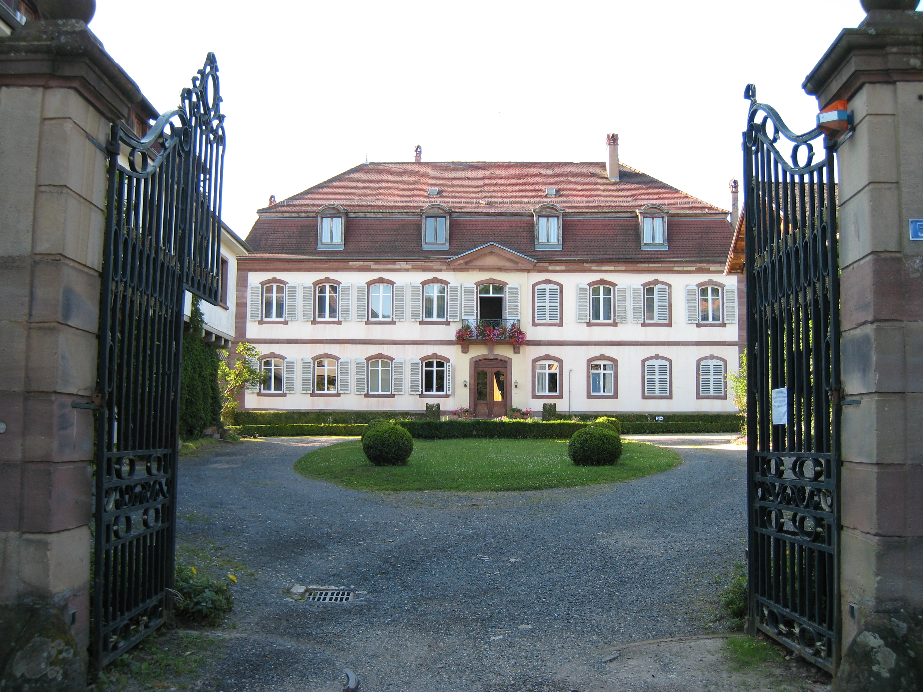 Ottrott, Alsace, the Windeck castle